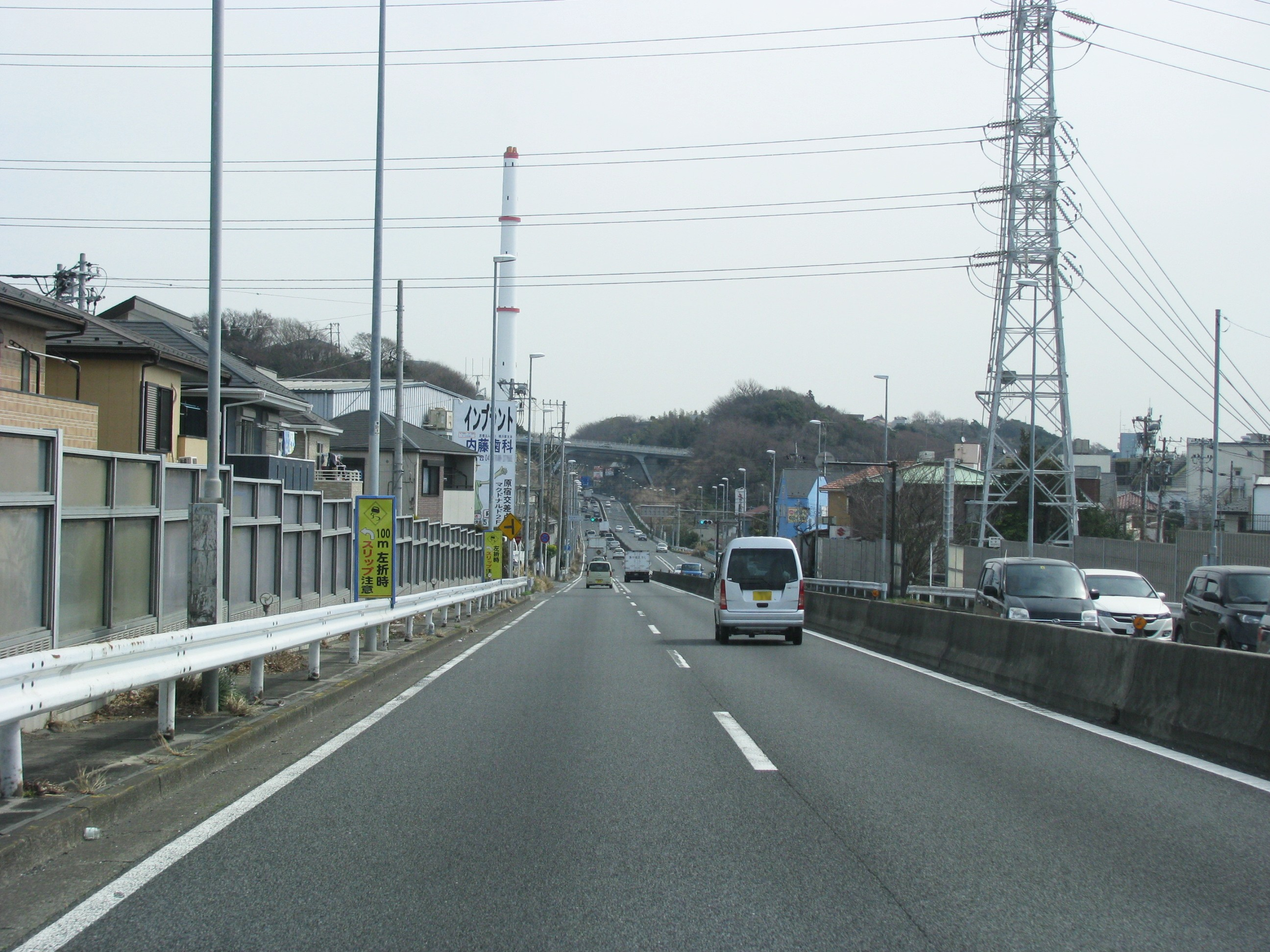 The Japan National Route 1. This located is in Fujisawa, Kanagawa Prefecture, Japan.